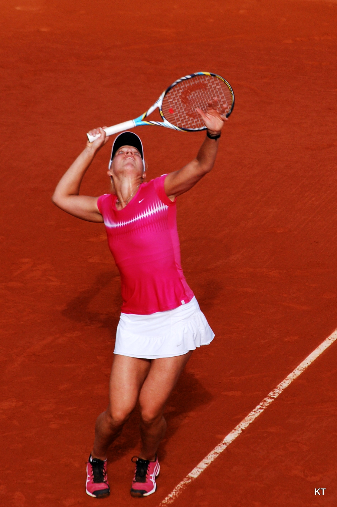 Kaia Kanepi serves during her 3rd round match with Caroline Wozniacki. Kanepi won 6-1, 6-7, 6-3. Day 7 of Roland Garros 2012.